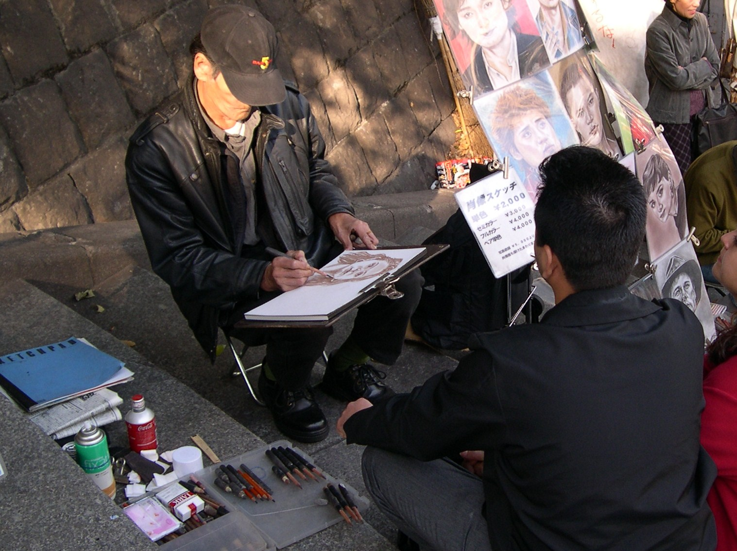 A quick sketch portrait artist in Ueno, Tokyo, Japan.